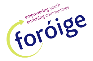 This is the modern logo for Foróige, which is an Irish youth organisation, and has been used since 2013.